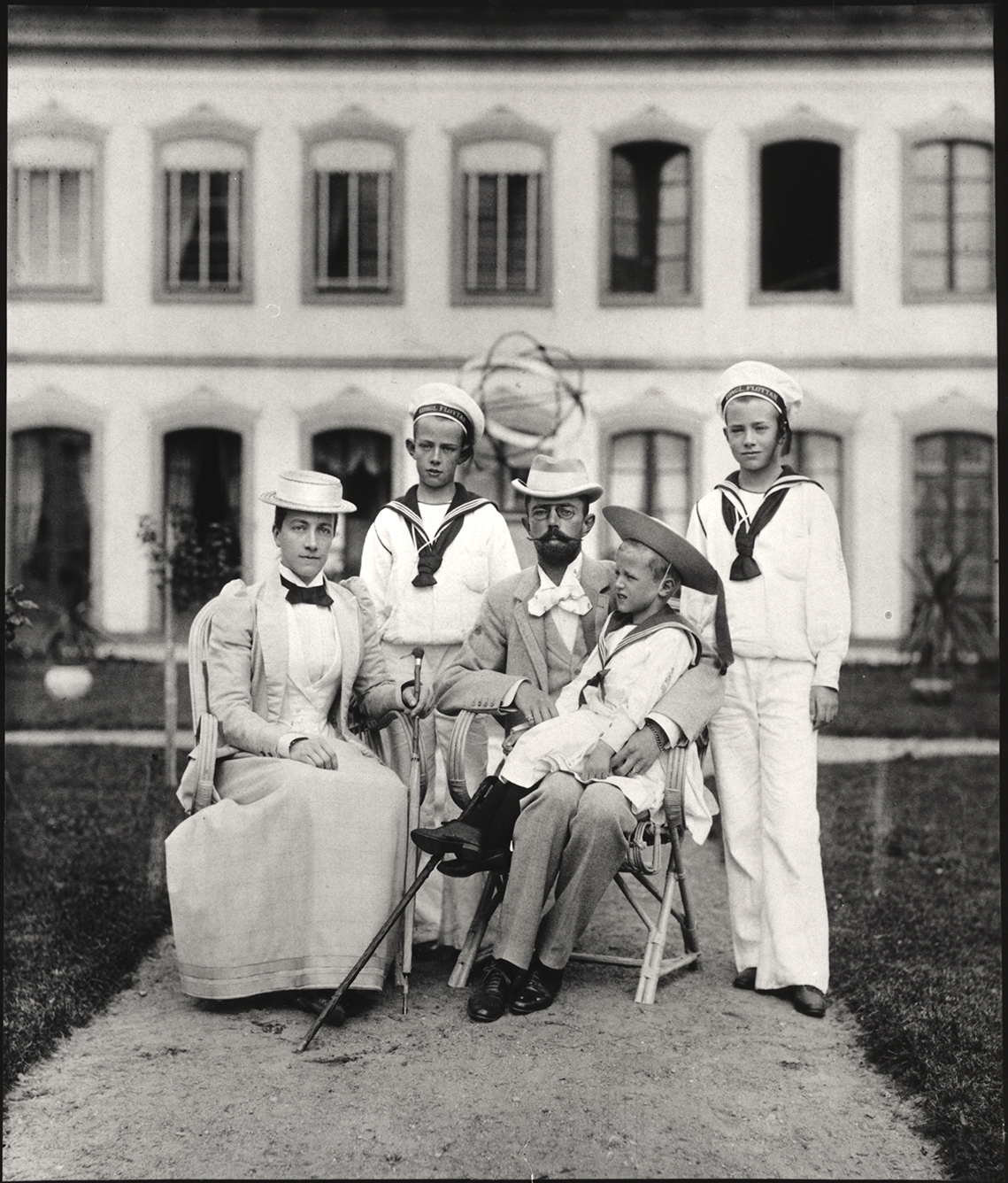 King Gustaf V and Queen Victoria together with their three children, Princes Gustaf Adolf, Wilhelm and Erik. Photographed in the mid-1890s.